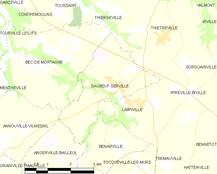 Map of French municipality Daubeuf-Serville